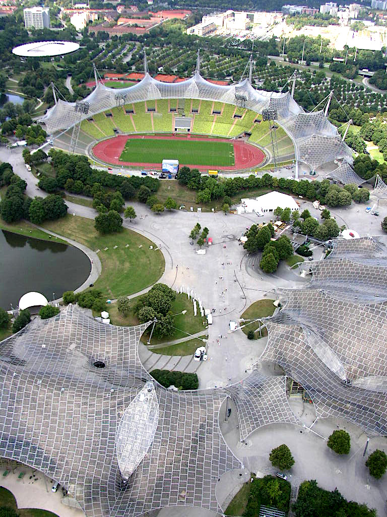 The roof tensile structures by Frei Otto of the Olympiapark, Munich. 1972 Munich Olympic Stadium. Partial view of The Olympiapark (a view down of the Olympiaturm to the Olympic Stadium, on the right: Olympia Halle, left: Schwimmhalle ).